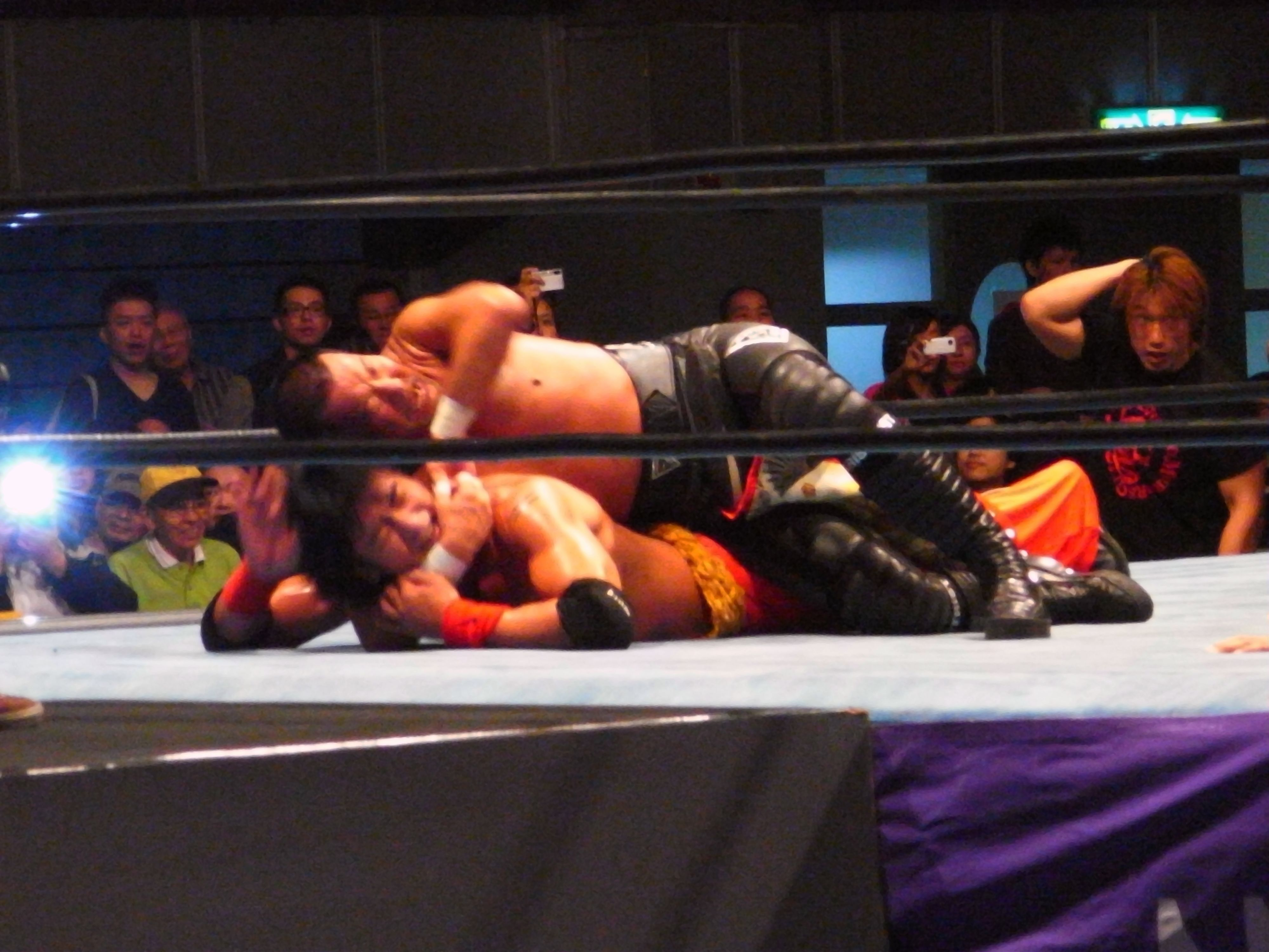 STF move by Masahiro Chono at AJPW event "Pro-Wrestling Love in Taiwan 2010", the NTU Gym, Taipei.